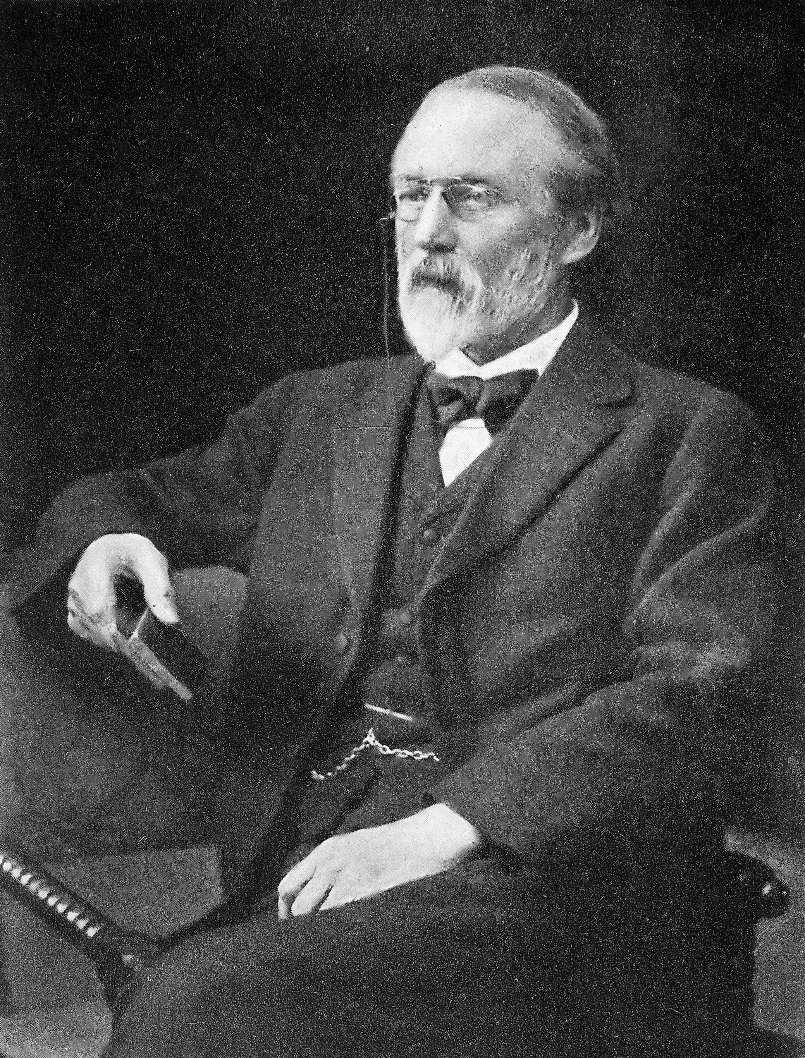 Illustration of Sir Laurence Gomme from a collected volume of journals.